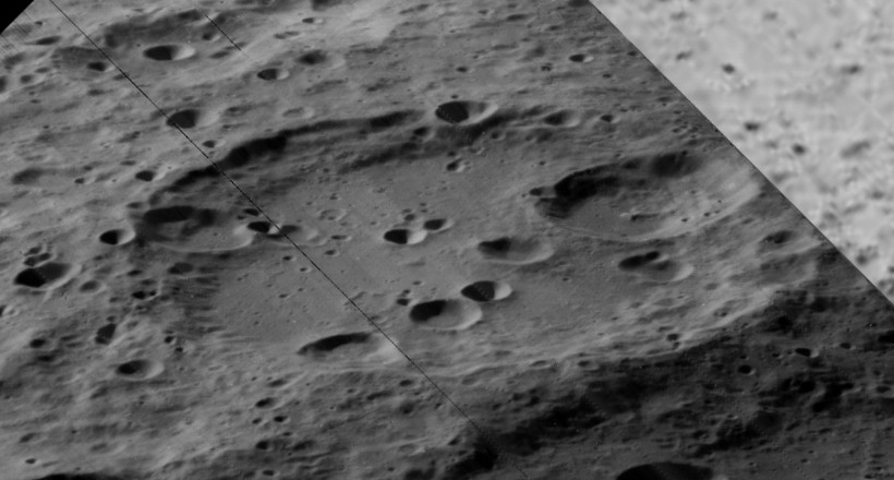 Oblique view of Rowland on the far side of the moon, facing west. Mosaic of high-resolution (H) frame and low-resolution (M) frame.